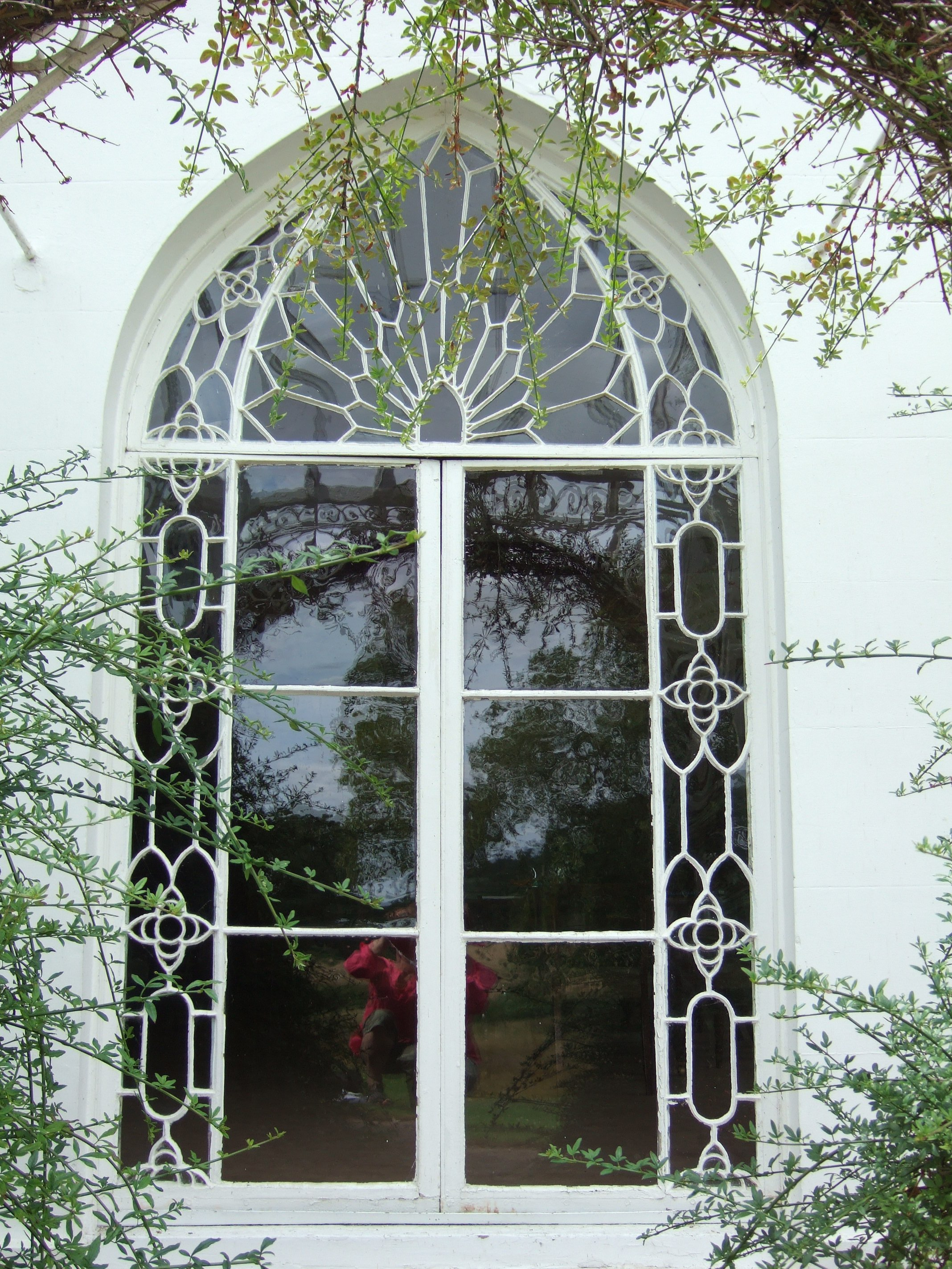 Houghton Lodge, Stockbridge, Hampshire, England. Many of Houghton's windows are in the exaggerated, decorative Gothic, almost Islamic, style which originated from the Walpole's Strawberry Hill Gothic.